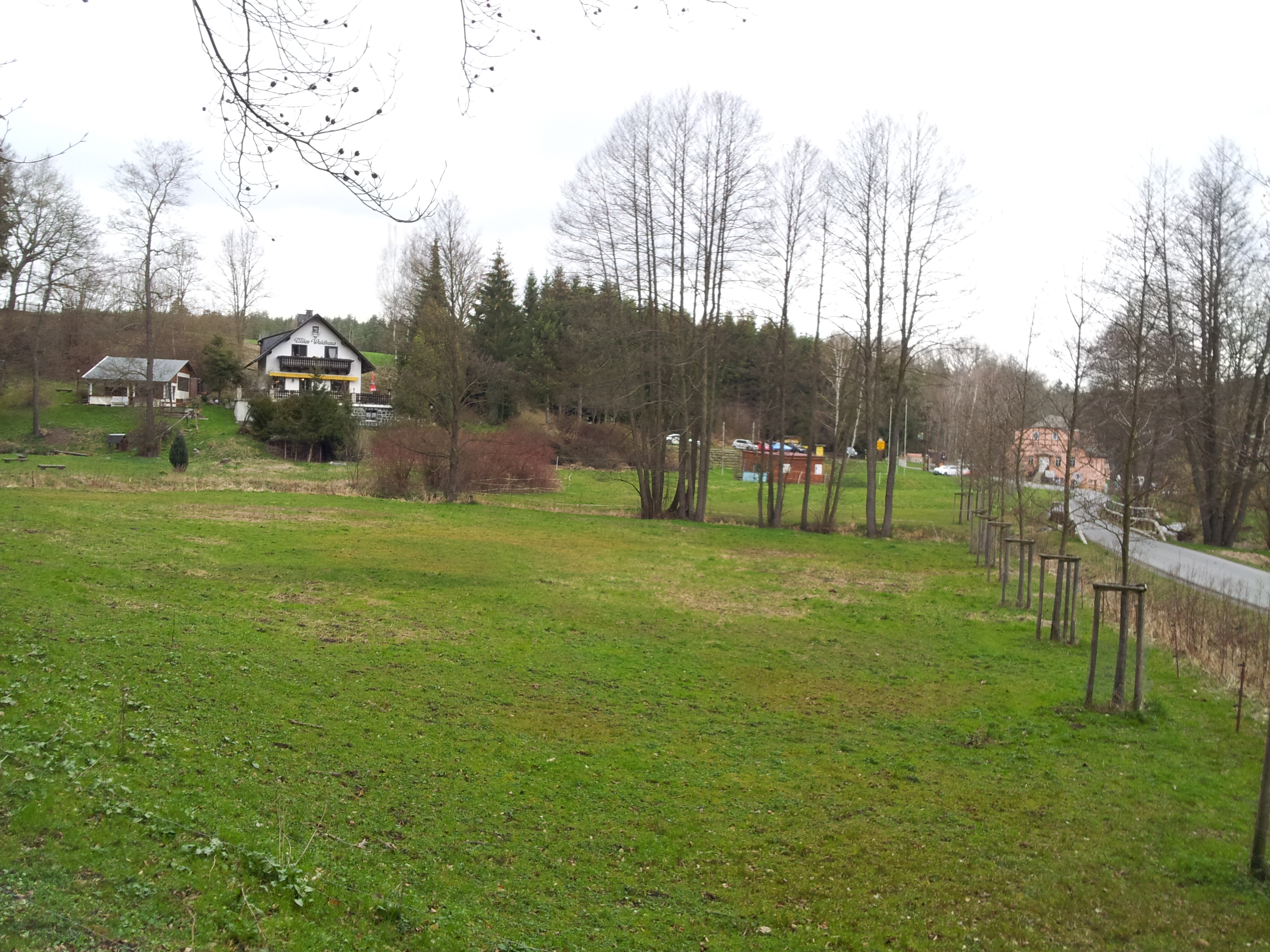 The Mühltal (mill valley) near Eisenberg in Thuringia, Germany